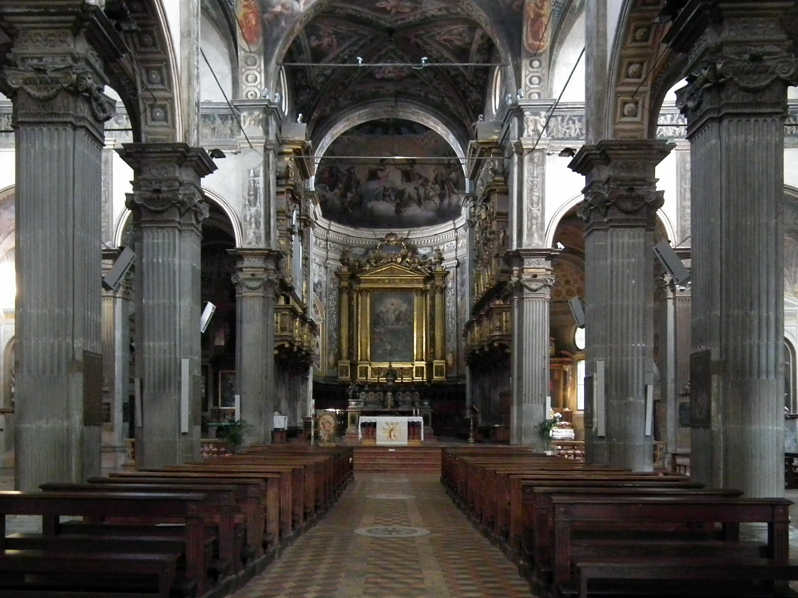 San Giovanni Evangelista Native nameAbbazia di San Giovanni EvangelistaLocationParmaCoordinates44° 48′ 10″ N, 10° 19′ 57″ E Established1510Authority control : Q3603222 VIAF: 125586873 ISNI: 0000 0001 2152 0732 institution QS:P195,Q3603222